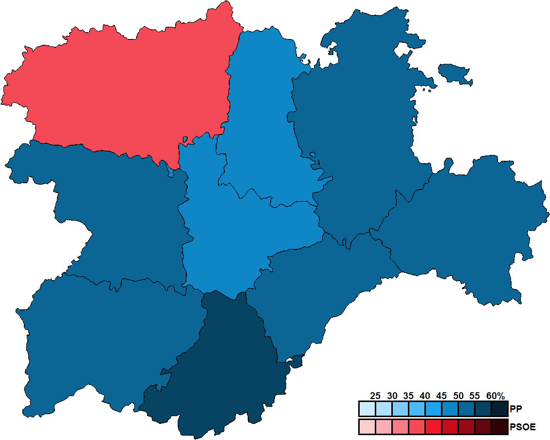 Provincial results for the 2007 Castilian-Leonese regional election.